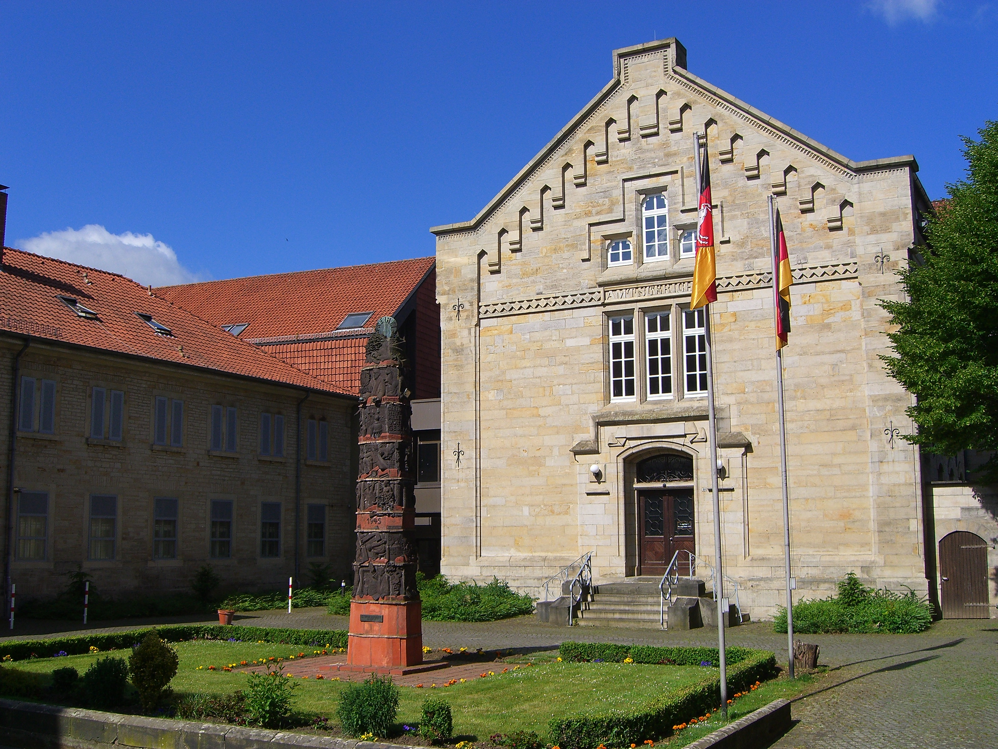 district court in Helmstedt.